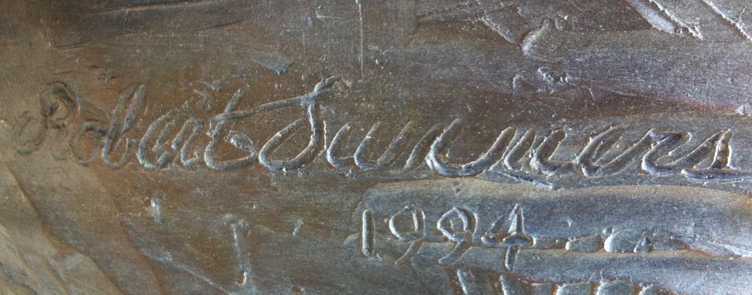 Signature of the bronze sculptor Robert Summers. This specimen was photographed on a statue at Pioneer Plaza in Dallas, TX